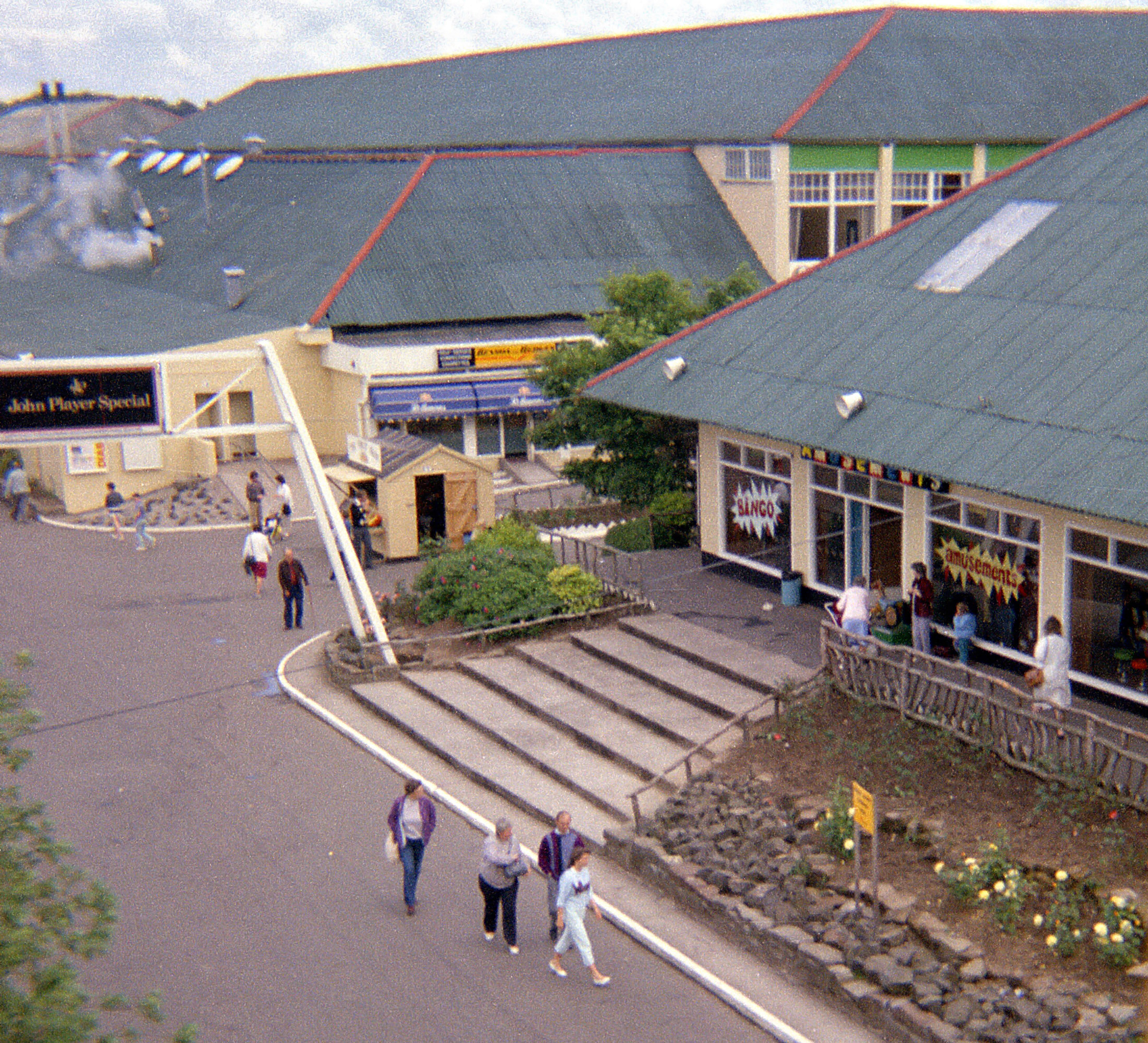 Another overhead view of Butlins holiday camp in Ayr, Scotland, 1985. (Later known as "Wonderwest World").